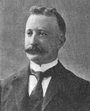 William J. Wynn, California Congressman.